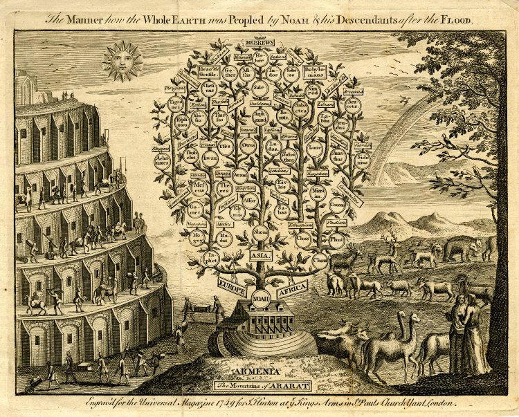 Genealogical tree of Noah after the Biblical flood. Engraved in 1749, J. Hinton